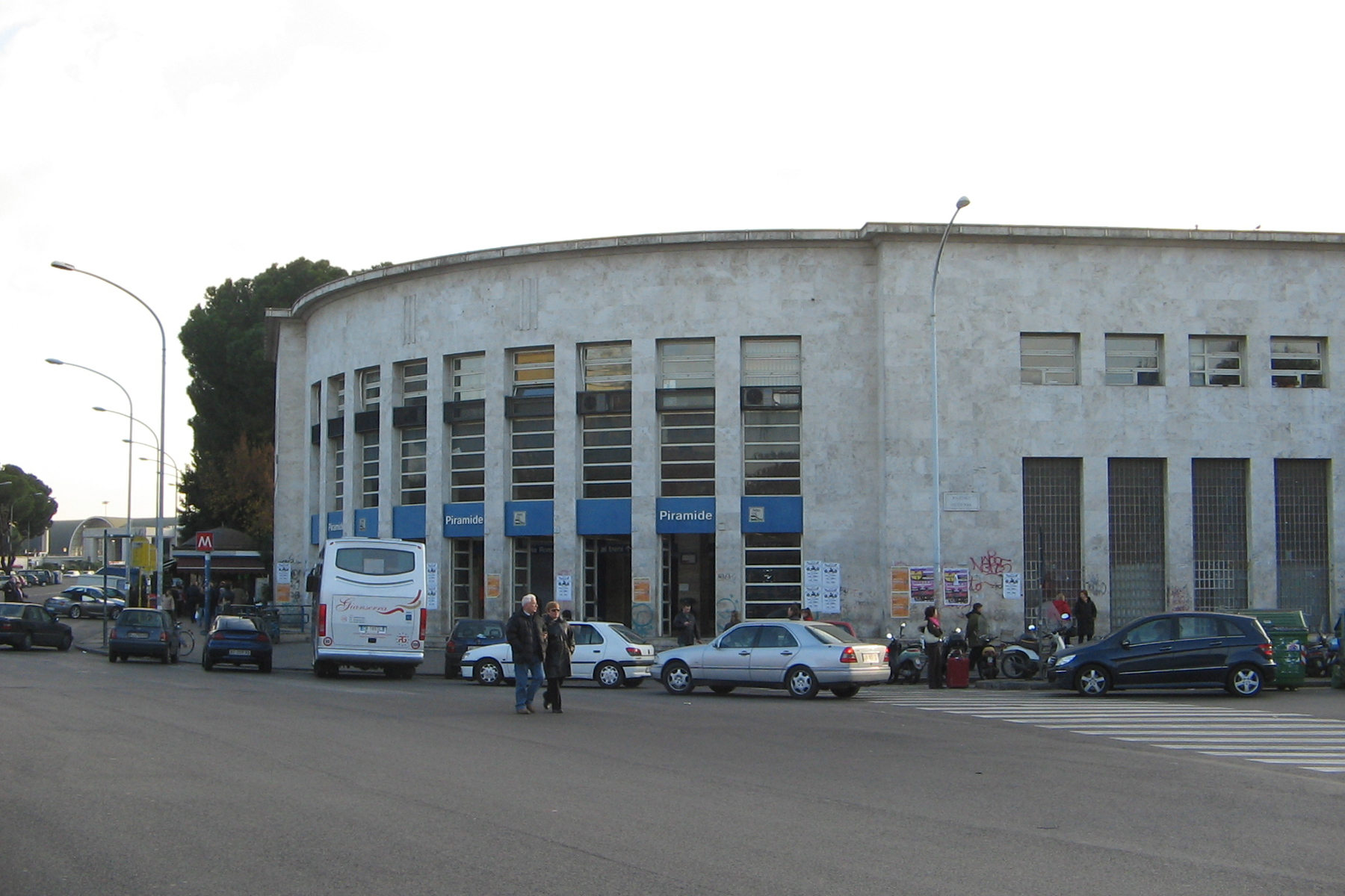 The main entrance of Piramide metro station in Rome